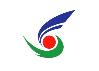 Flag of Setouchi Okayama